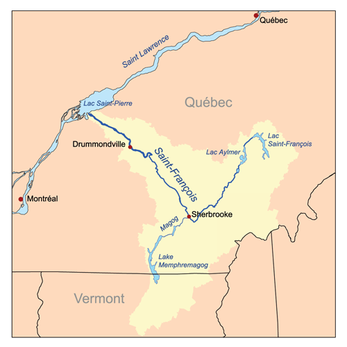 This is a map of the Saint-François River watershed. I, Karl Musser, created it based on USGS and Digital Chart of the World data.